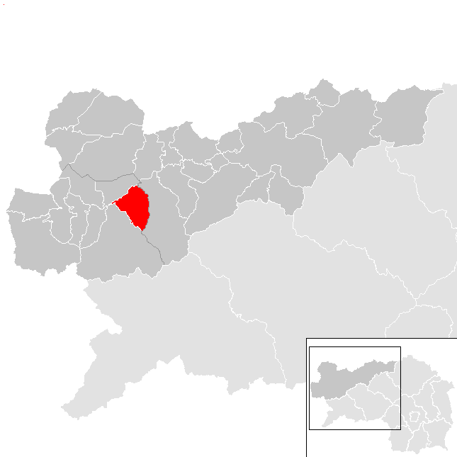 District Leoben